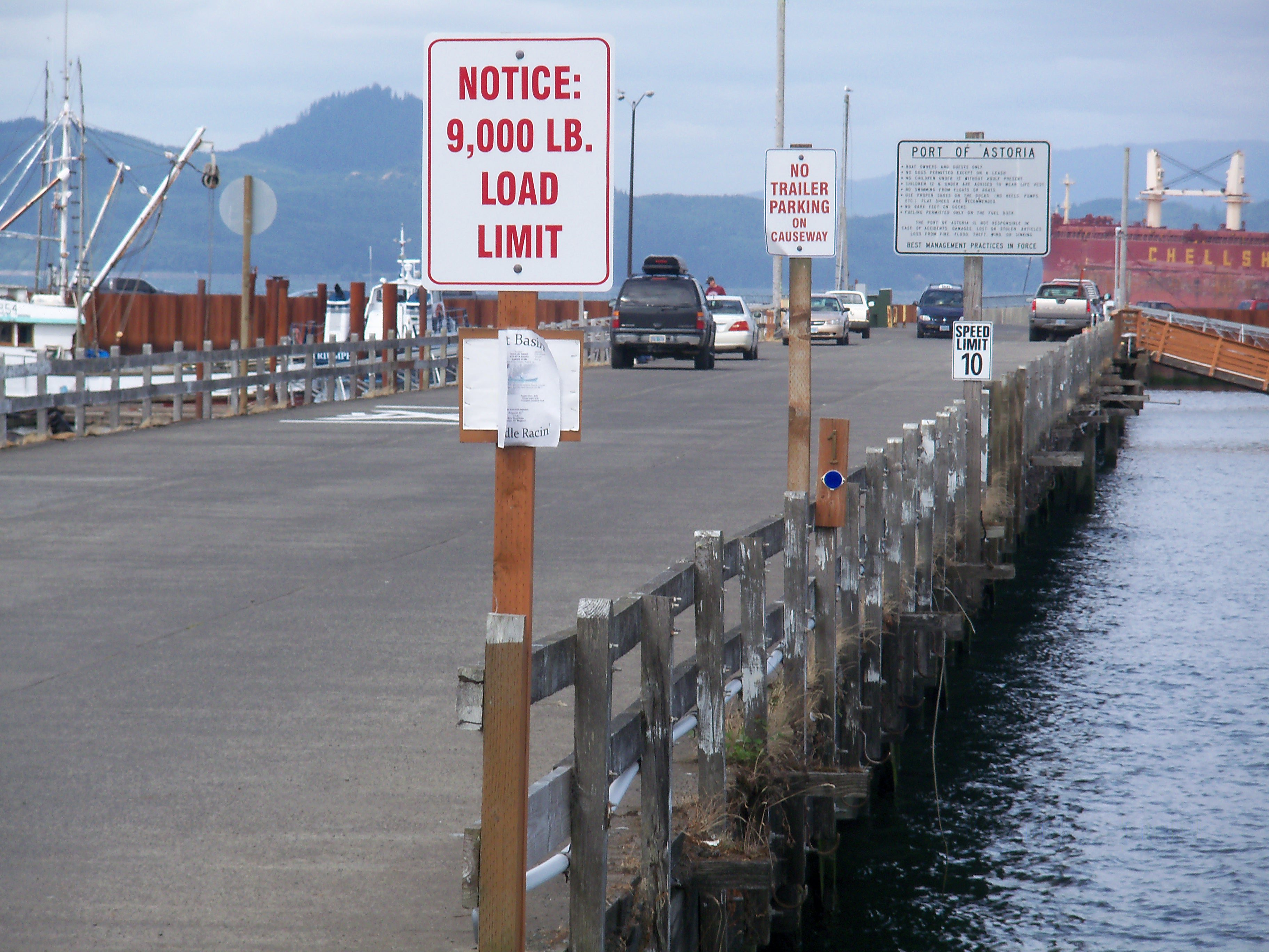 Signs at the Port of Astoria in Oregon. September 1, 2009